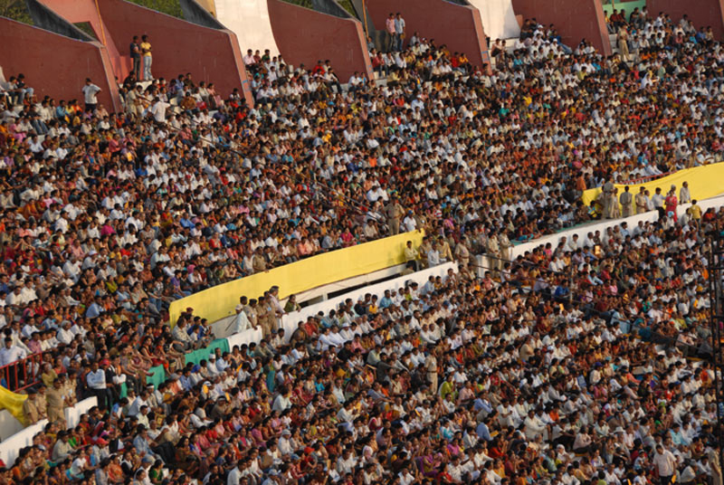 Swarnim Gujarat Celebrations at Sardar Patel Stadium(Navrangpura), Ahmedabad